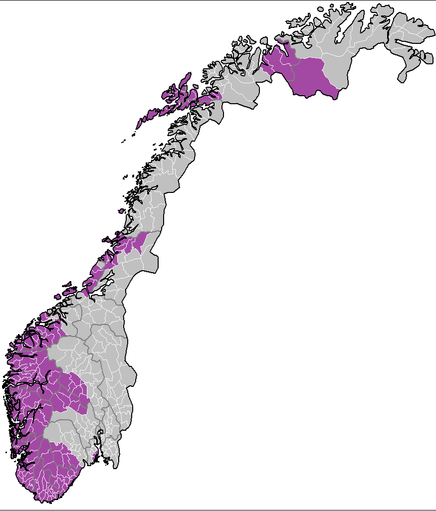 A map showing the Norwegian Bible Belt.